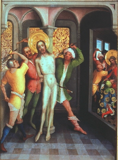 Flagellation-Couronnement d'épines du retable d'Heisterbach wrm x1405081